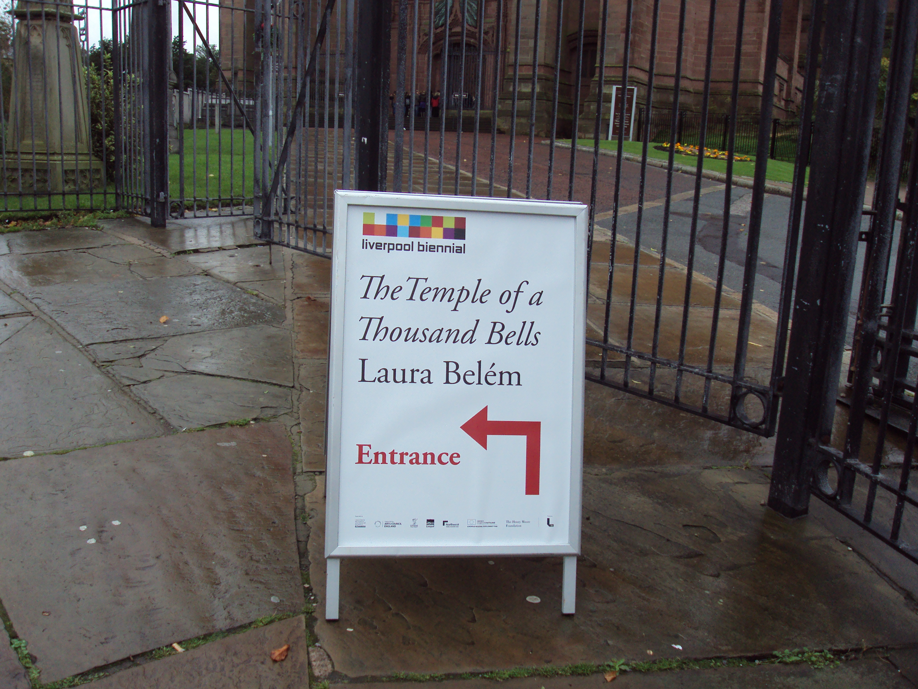 Sign outside The Temple of a Thousand Bells 2010 exhibition by Laura Belem at The Oratory, St James Cemetery, Liverpool.